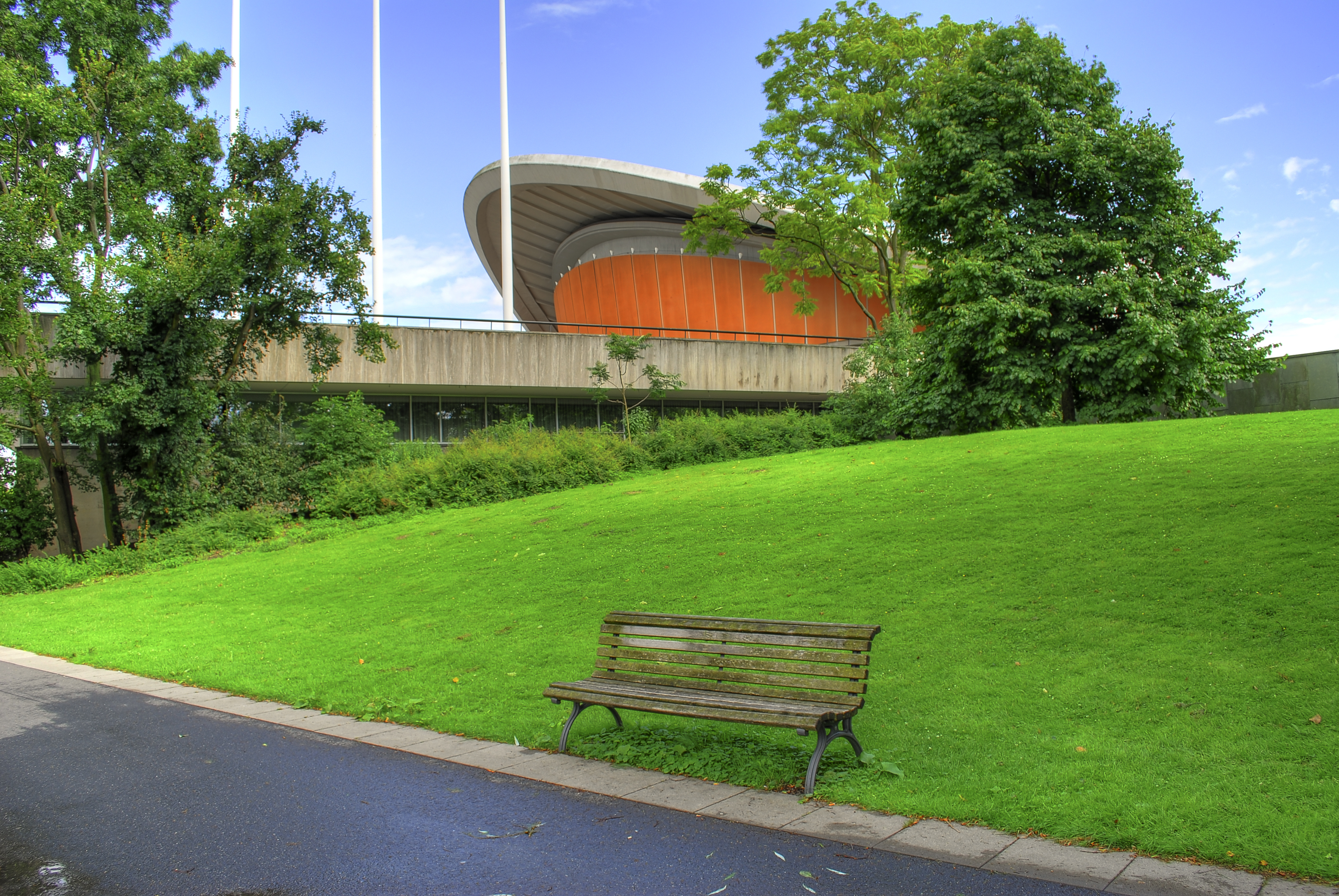 House of the Cultures of the World